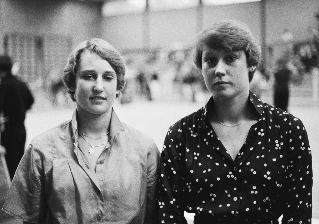 Monique (rigt) and Ingrid Bolleboom